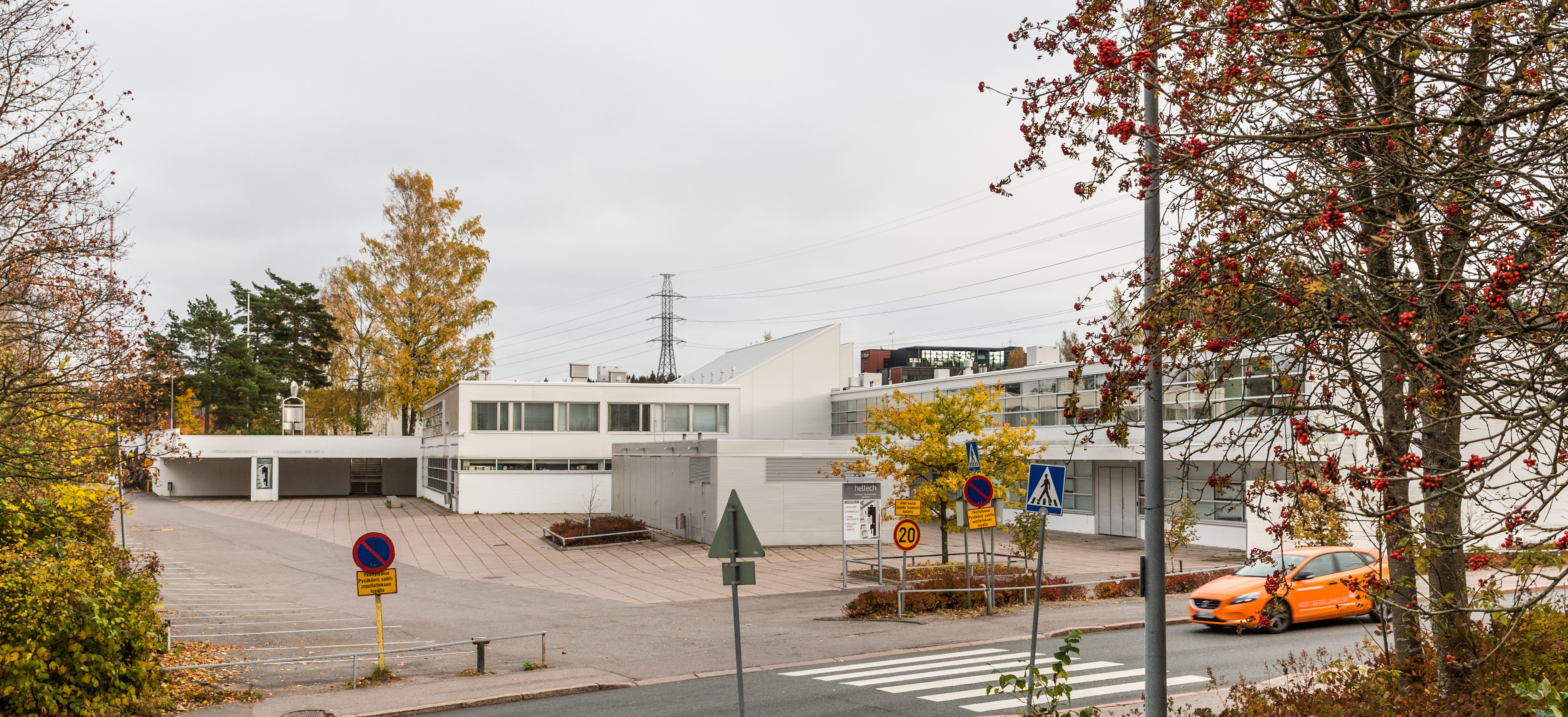 Heltech technical school